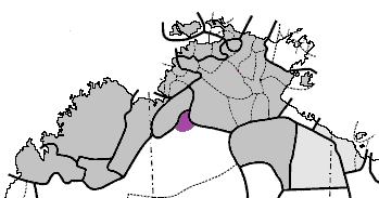 Karranga (Karangpurru) language (purple), among the non-Pama-Nyungan languages (grey)